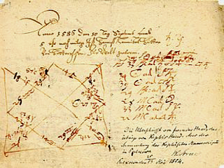 Horoscope drawn up by Johannes Kepler for Austrian nobleman, Hans Hannibal Huetter von Huetterhofen, born 10 September 1586, at 5pm